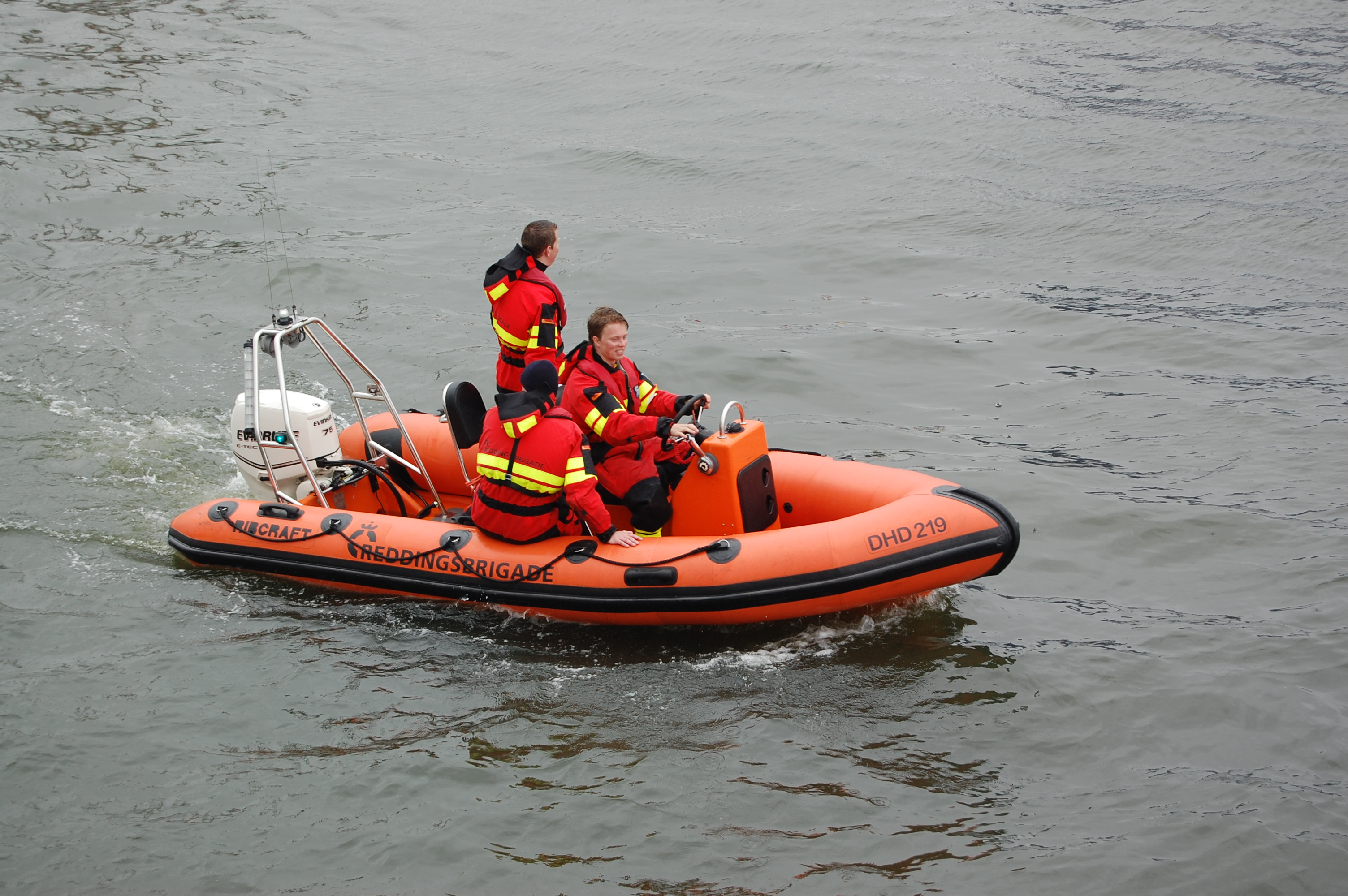 Life saving boat, Den Helder, 22 June 2013